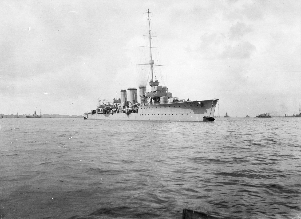 The light cruiser HMS Aurora (1913) at moorings, Harwich A starboard bow view of the light cruiser HMS 'Aurora' (1913) at moorings off Harwich. The negative has some evidence of fingerprints and a few marks on it.